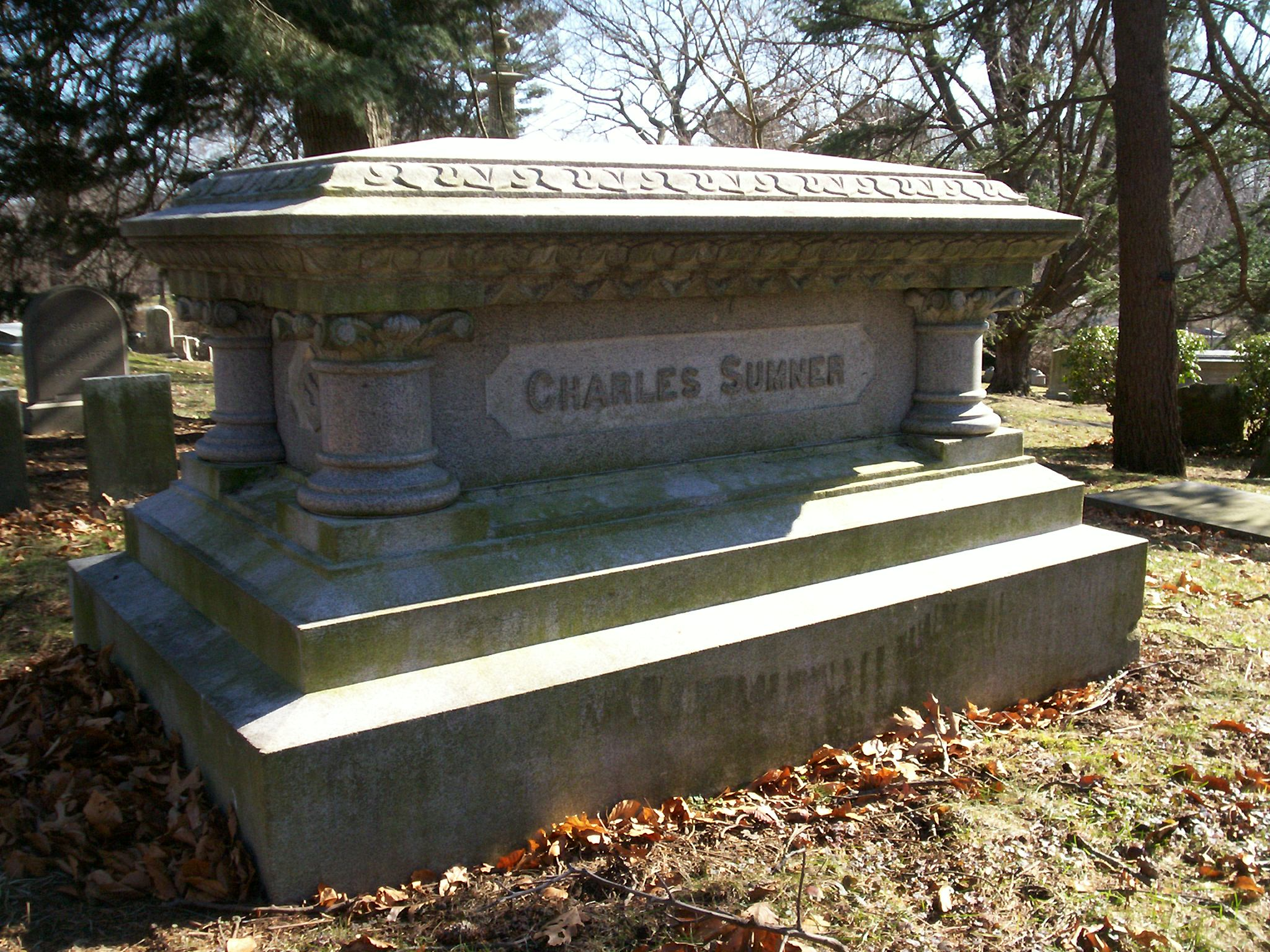 Grave of Charles Sumner at Mount Auburn Cemetery in Cambridge, Massachusetts